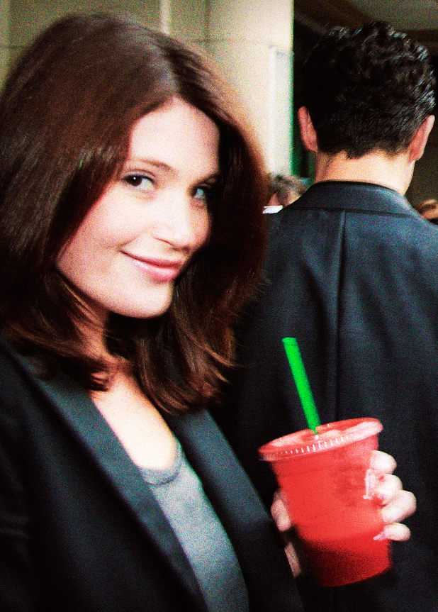 Gemma Arterton behind Dominic Cooper at the 2010 Toronto International Film Festival.